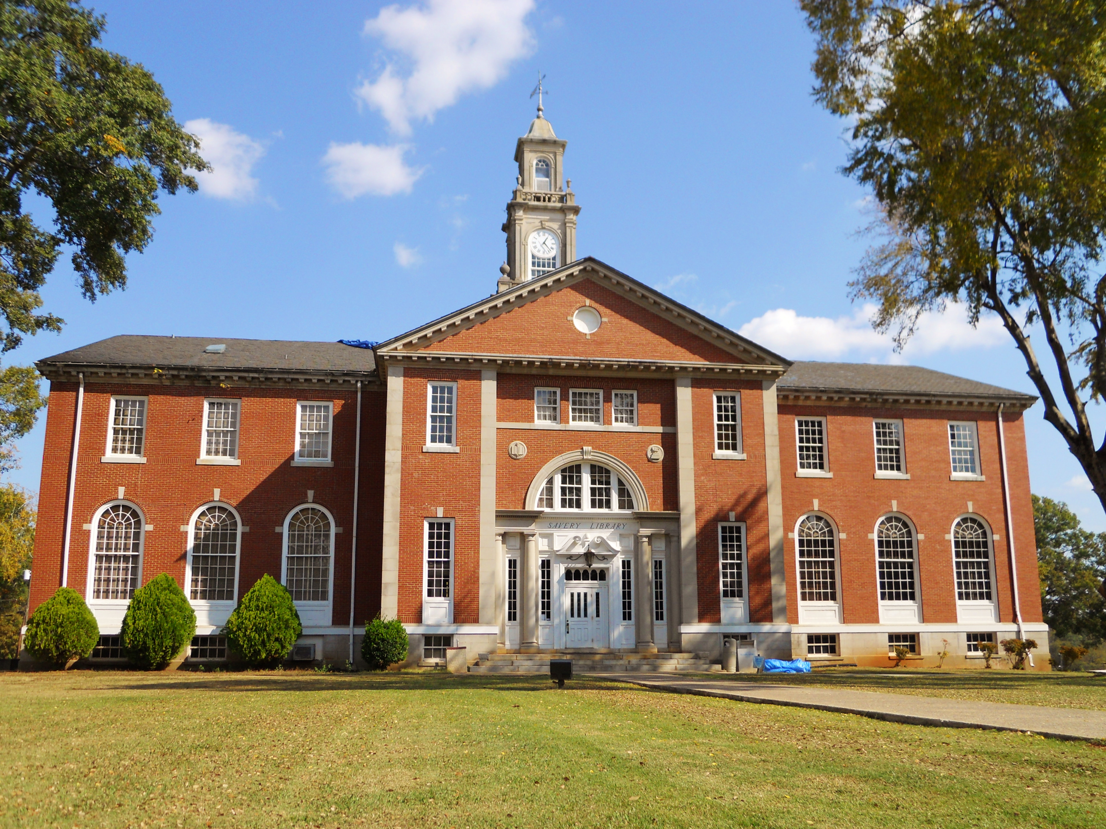 This is a photograph of the Savery Library and clock tower on the campus of Talladega College in Talladega, Alabama.